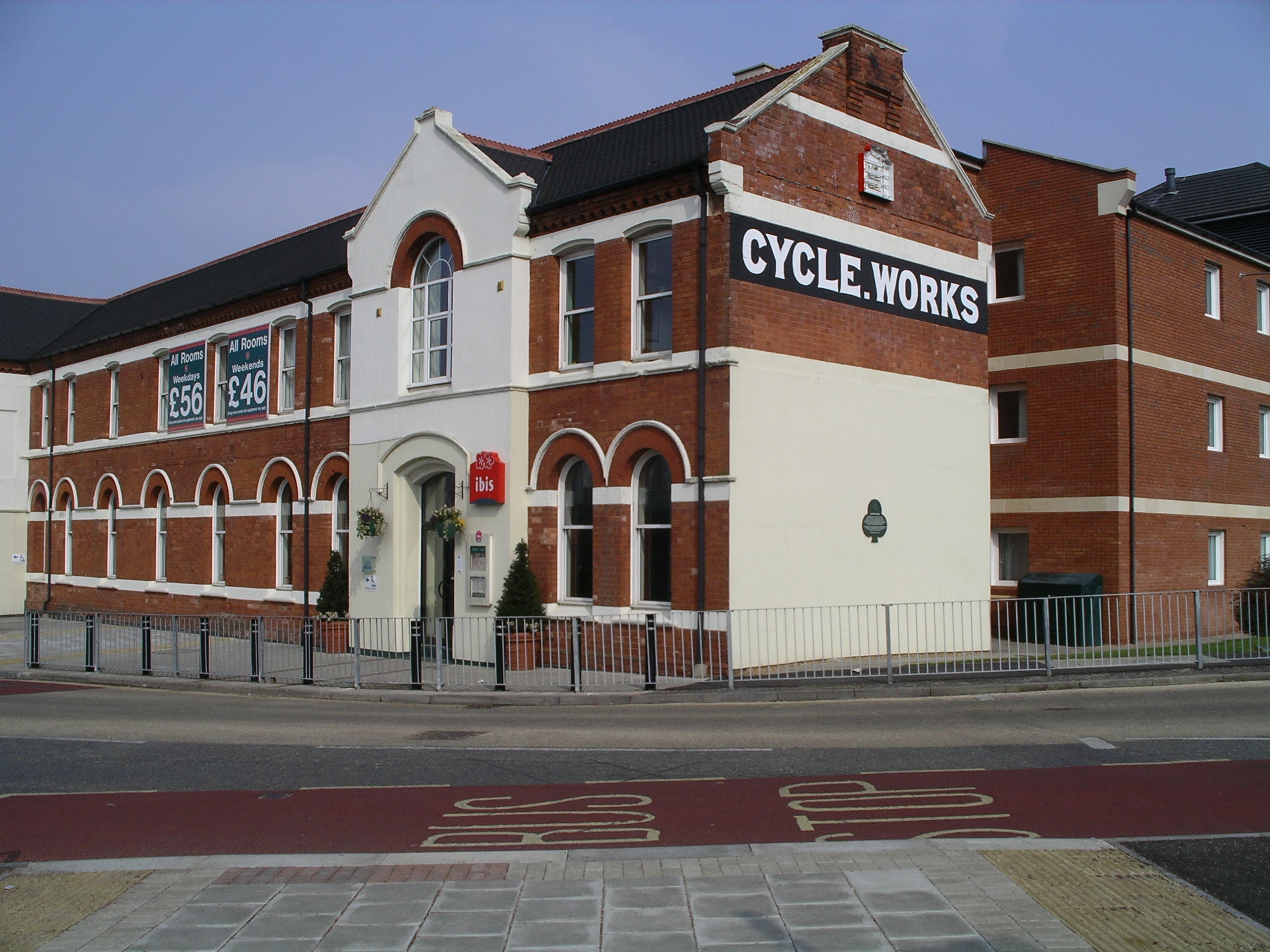 Photo taken by me of the former cycle works in Cheylesmore, Coventry, England. It is now a hotel. It was also home to Edwards the Printers Ltd for many years.